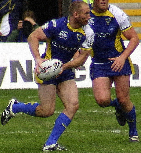 Michael Monaghan